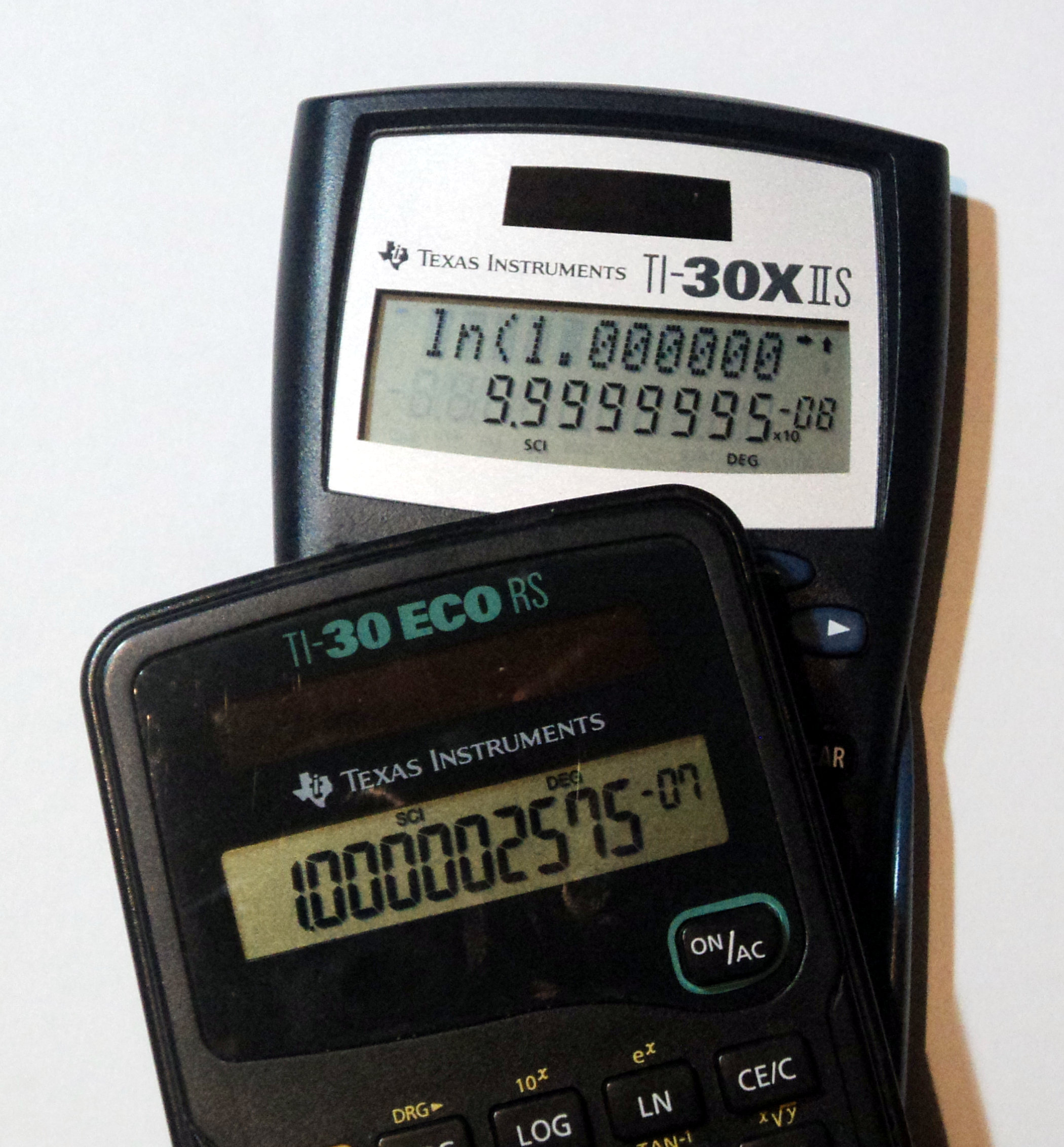 Demonstration of the so-called "logarithm bug" in some TI-30 calculators. In both cases, scientific notation was selected. Then, I calculated the value of ln(1.0000001). While the TI-30X IIS gives the correct value, the older TI-30 ECO RS displays the wrong one.